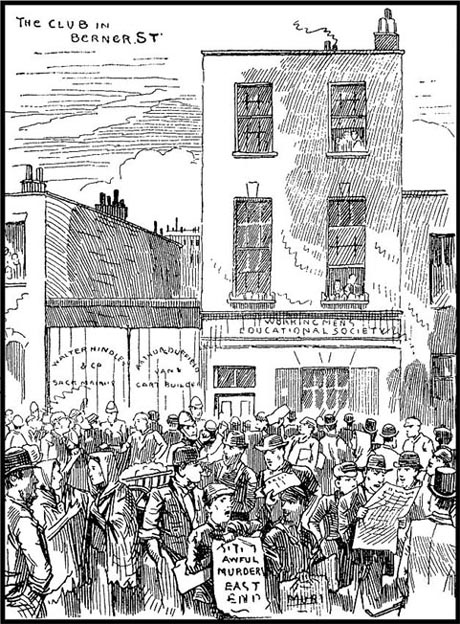 Drawing from the Pictorial News, 6 October 1888, portraying crowds gathered outside the International Working Men's Educational Club. Image is labelled "The Club in Berner Street" and shows the club building (with a sign saying "Working Men's Educational Society") at 40 Berner Street with some neighbouring buildings.